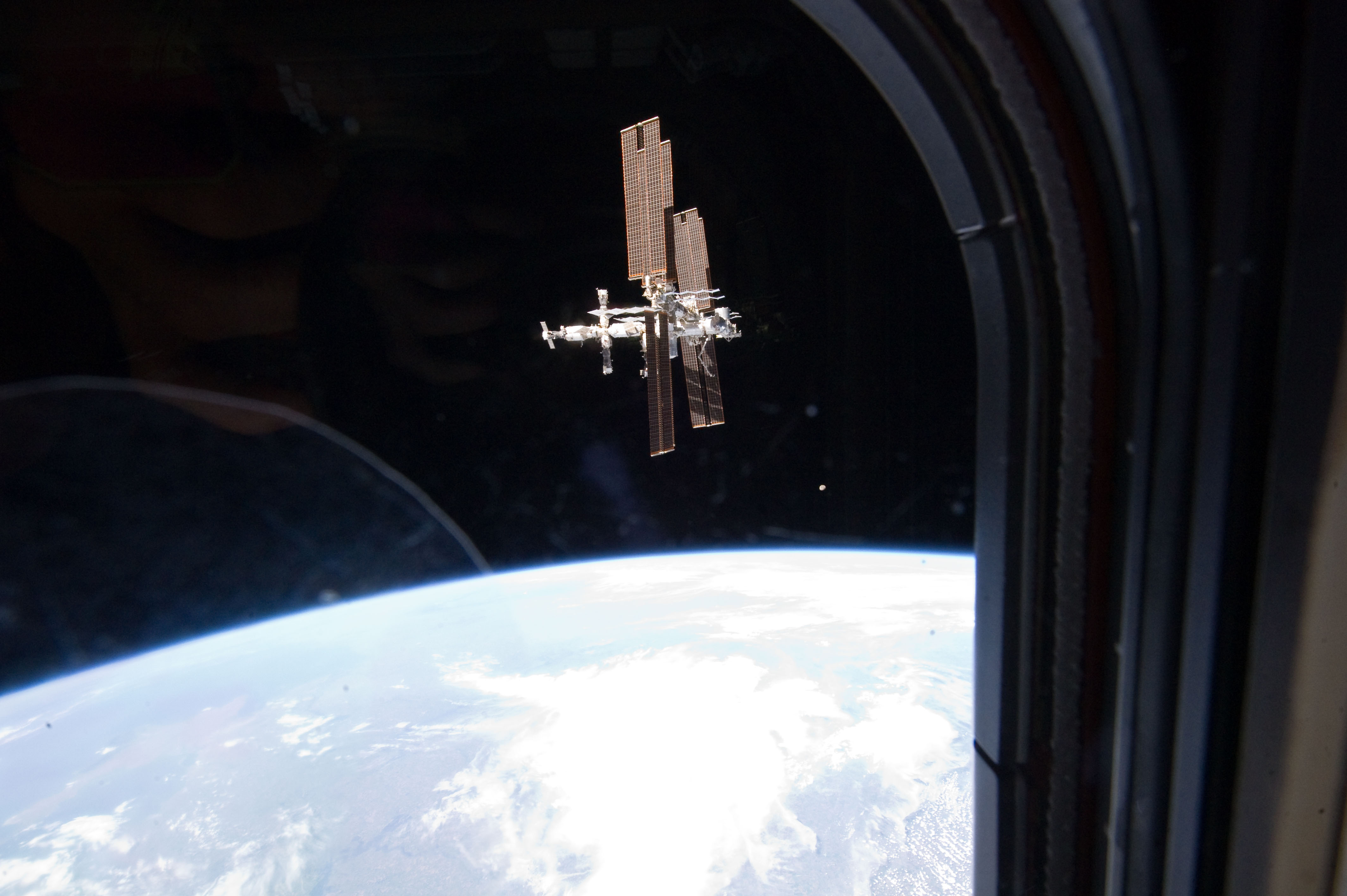 This image of the International Space Station was taken by Atlantis's STS-135 crew during a fly around as the shuttle departed the station.